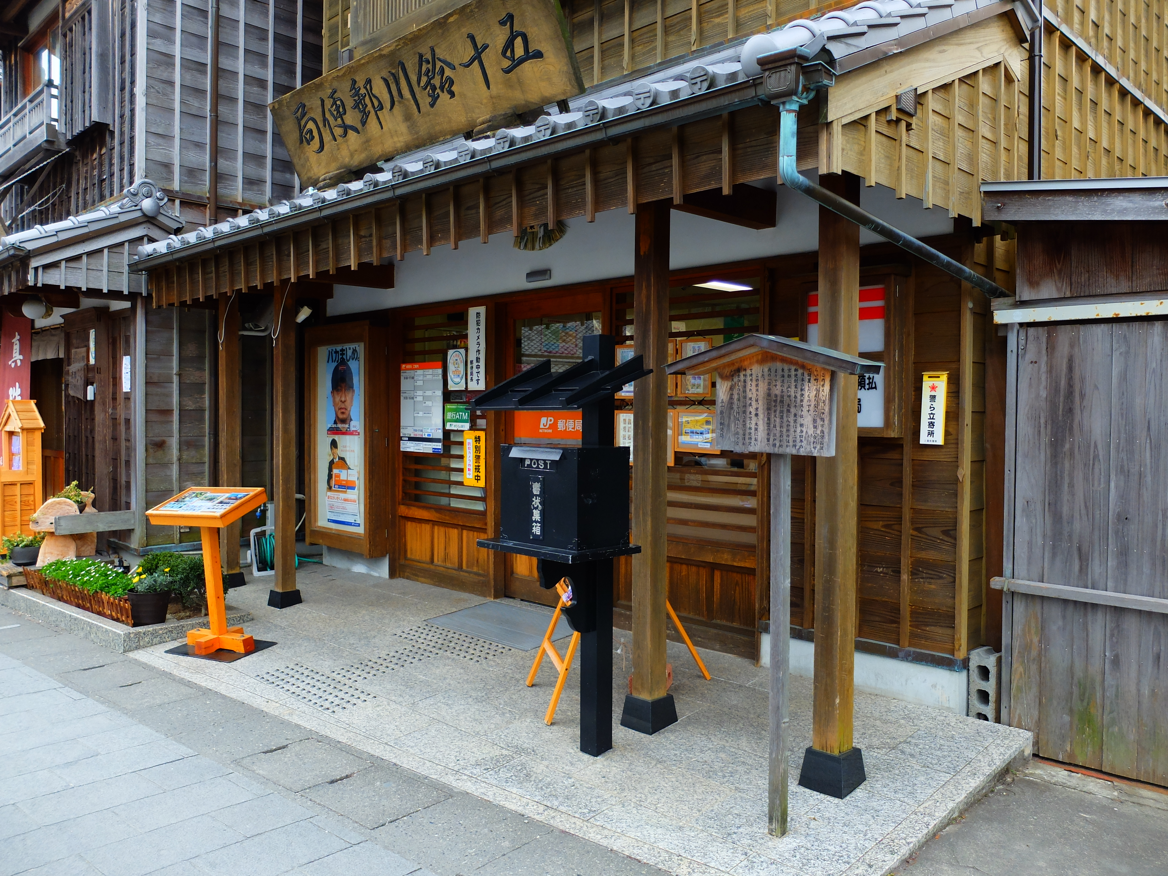 Replica of the first Japanese mailbox in Ise-city Mie pref.